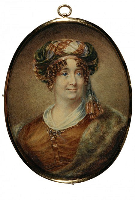 Sarah Biffen (October 1784 – 2 October 1850), also known as Biffin or Beffin,[1] was a Victorian English painter born with no arms. = painting from National Galleries Scotland